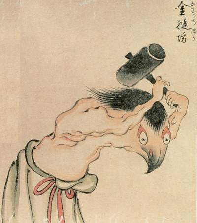 Kanaduchibō (金槌坊) from the Hyakki Yagyō Emaki (百鬼夜行絵巻)